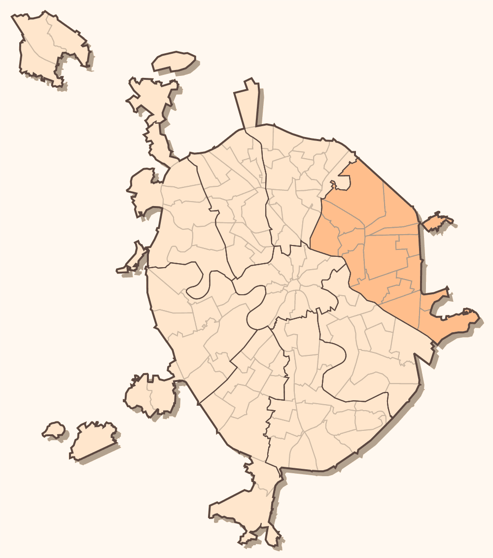 Moscow districts map